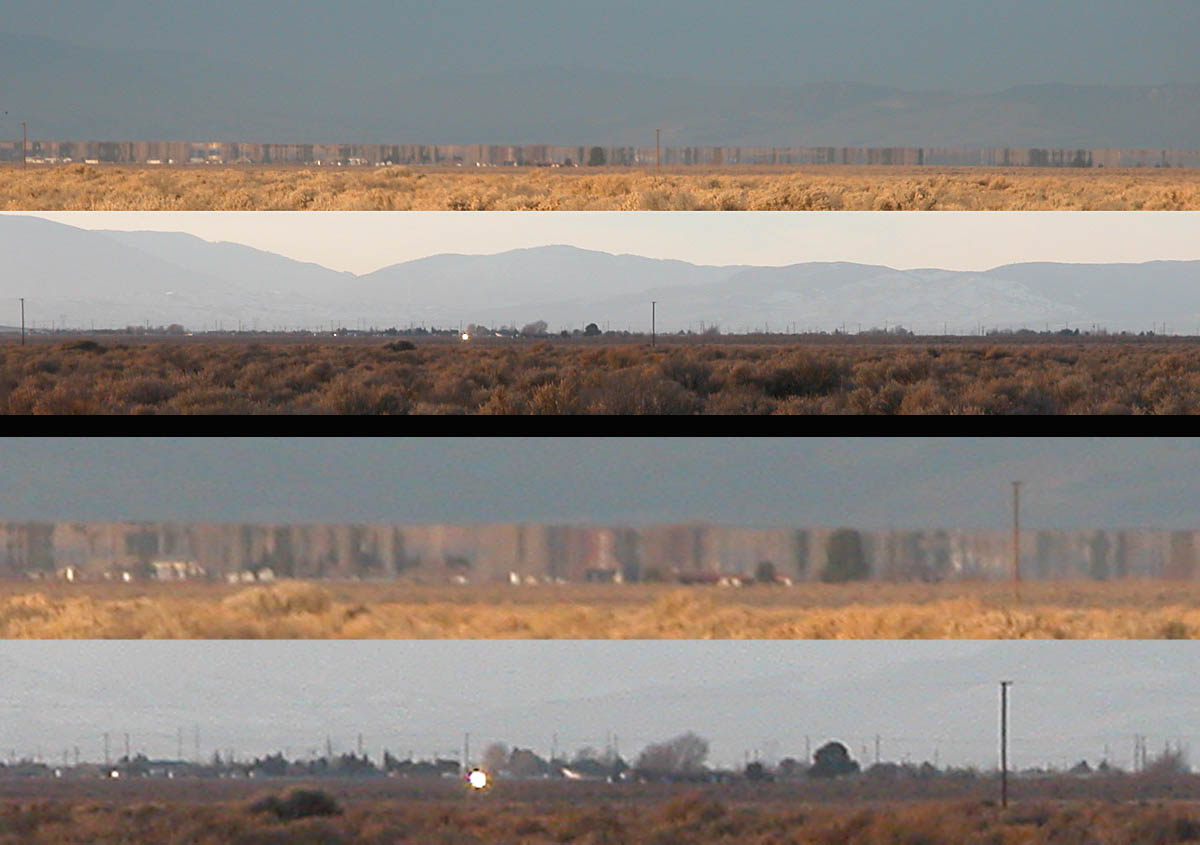 Superior mirage on a winter morning in the Mojave Desert, compared with same scene in the afternoon.